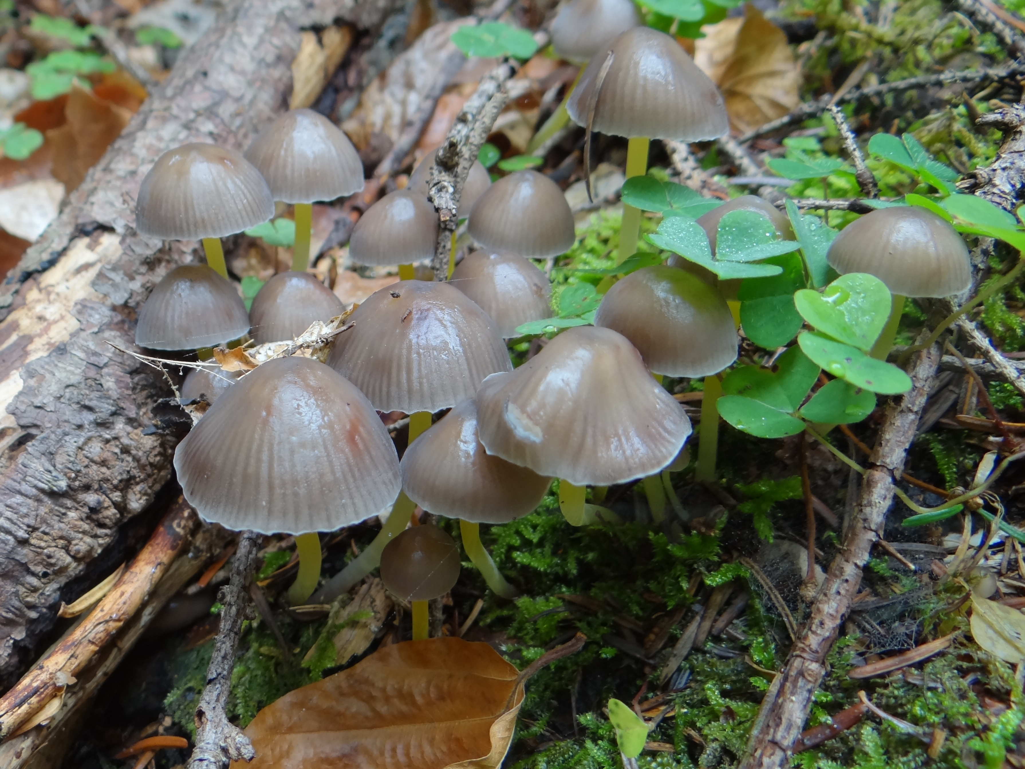 Mycena epipterygia (location: Poland, Pieniny)